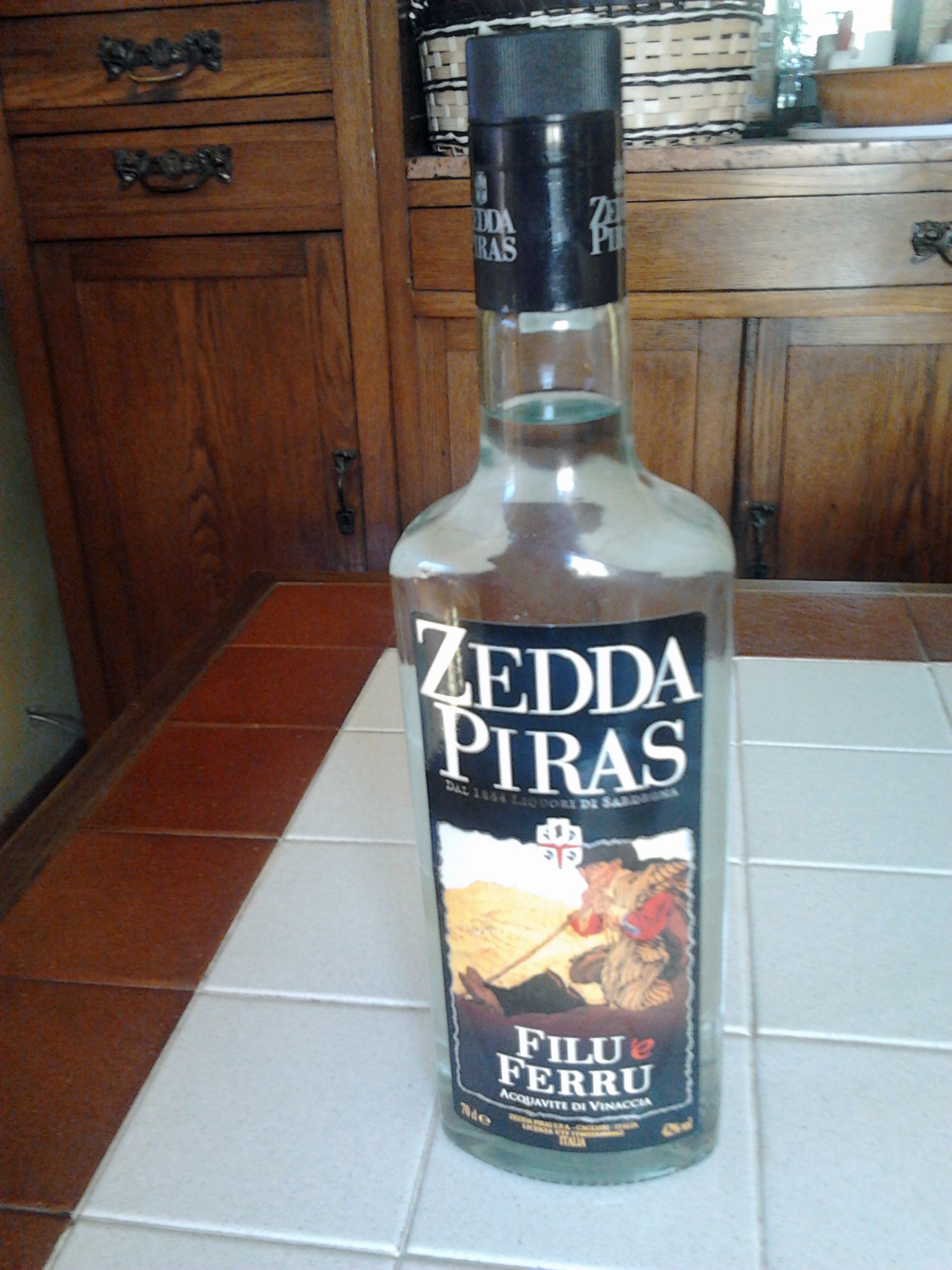 Bottle of Filu 'e ferru, typical liquer of Sardinia (Italy).